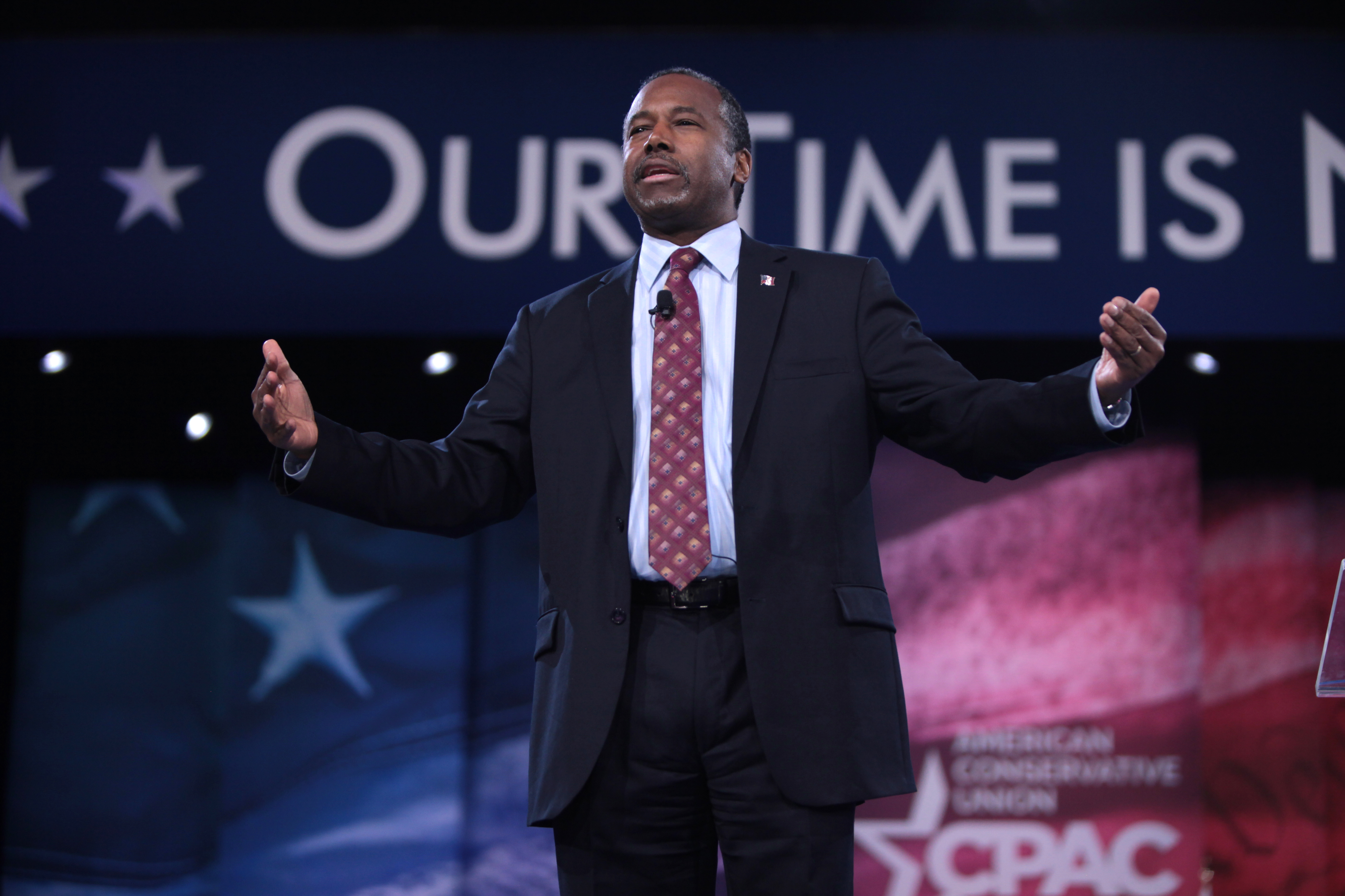 Ben Carson speaking at the 2016 Conservative Political Action Conference (CPAC) in National Harbor, Maryland.